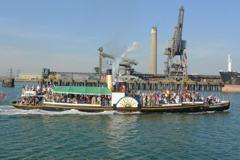 Paddle Steamer Kingswear Castle